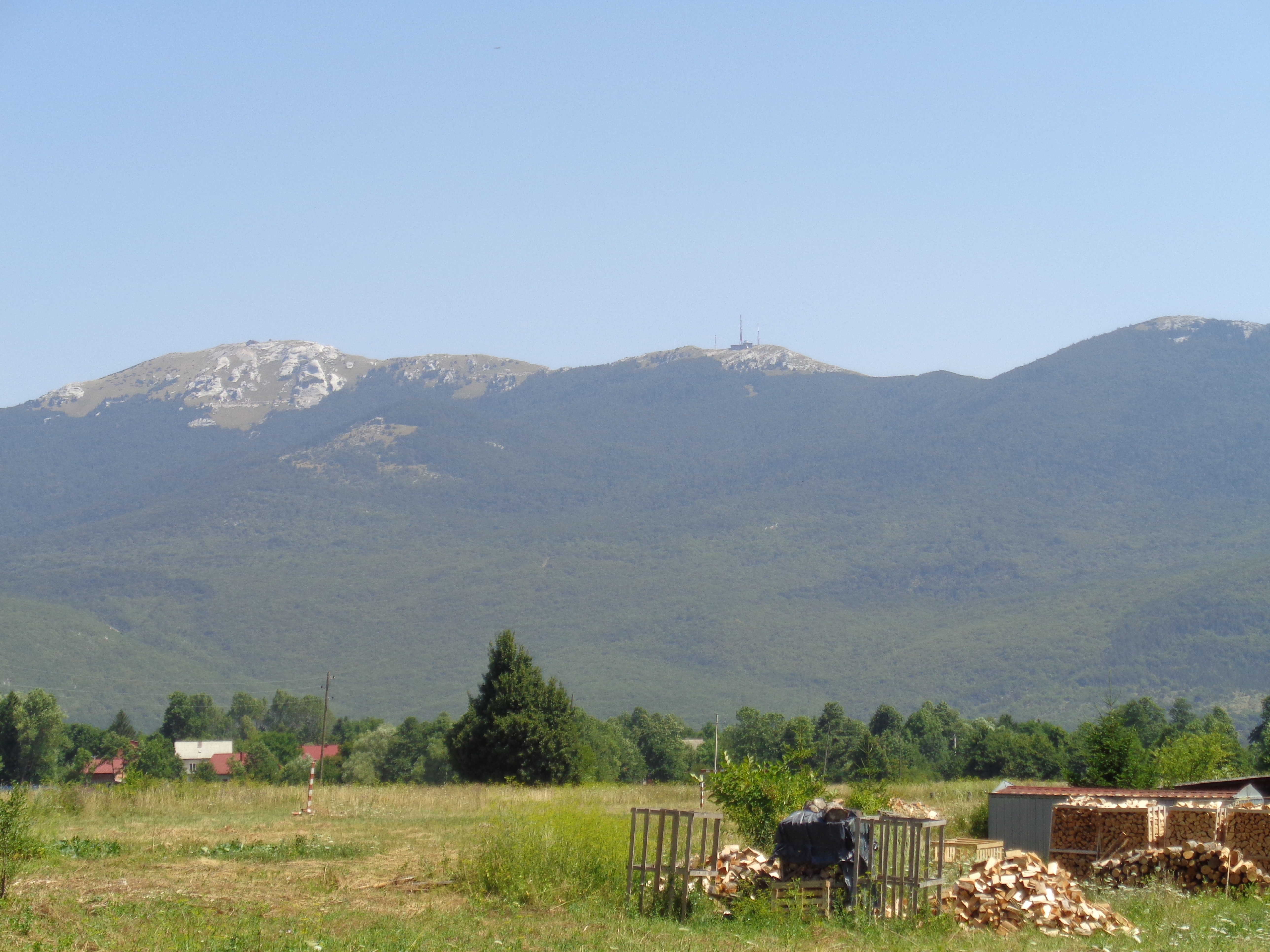 Lička Plješevica mountain, Lika-Senj County, Croatia, seen from Korenica